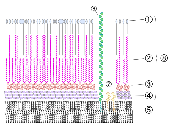 Schematic diagram of Mycobacterial cell wall. outer lipids mycolic acid polysaccharides (arabinogalactan) peptidoglycan plasma membrane lipoarabinomannan (LAM) phosphatidylinositol mannoside cell wall skeleton